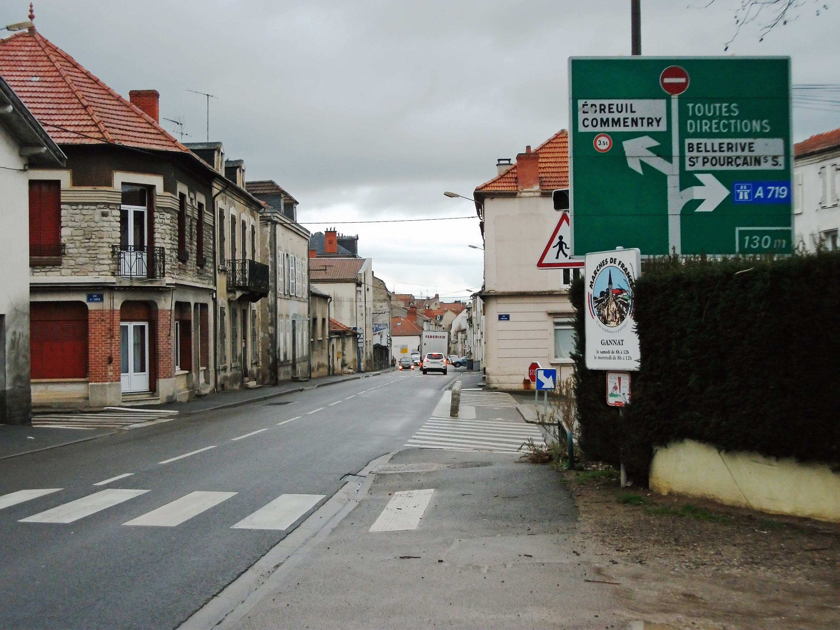 Old D42a road sign in Gannat, departmental road 2009 (former route nationale 9) [10106]